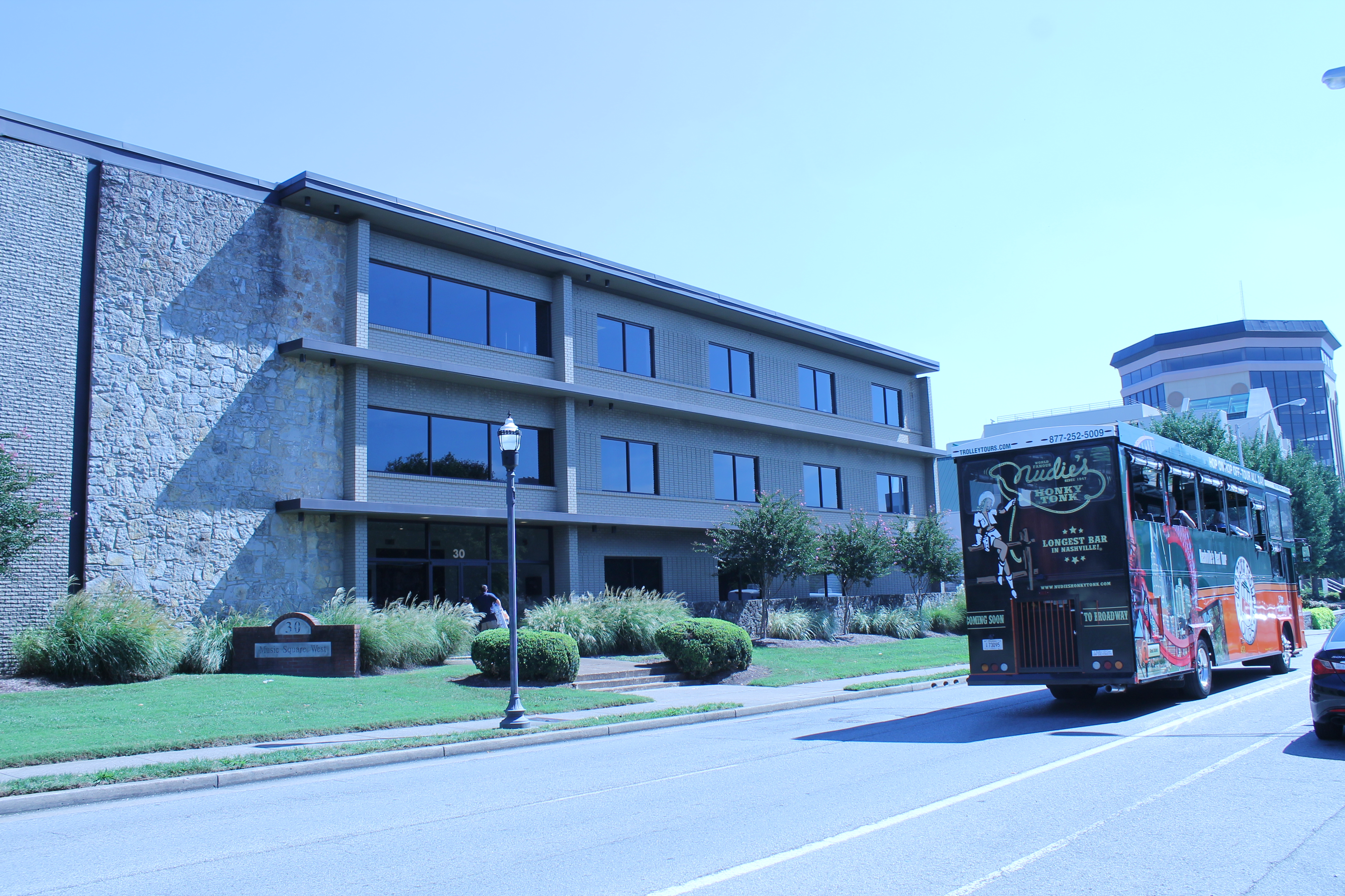 RCA Victor Studios Building, Americana Fest week